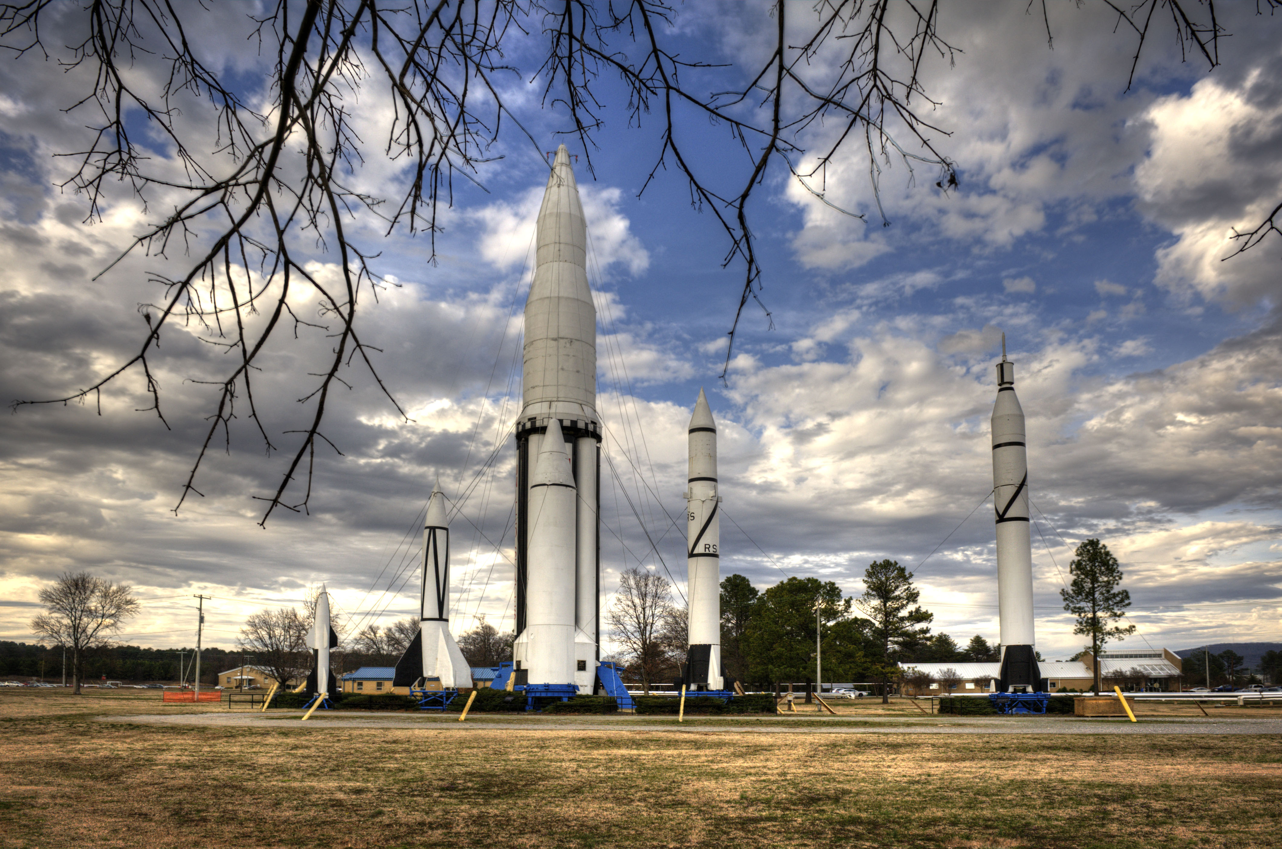 Per our photographer, the clouds were dramatic over Huntsville this day, so he did some images in HDR -- with gorgeous results. This view shows "Rocket Park" at Marshall Space Flight Center in Huntsville, Ala. From left to right: Hermes A-1 , V-2 rocket, PGM-19 Jupiter, PGM-11 Redstone, and Jupiter-C; the Saturn I Dynamic Test Vehicle stands behind the row of smaller rockets.